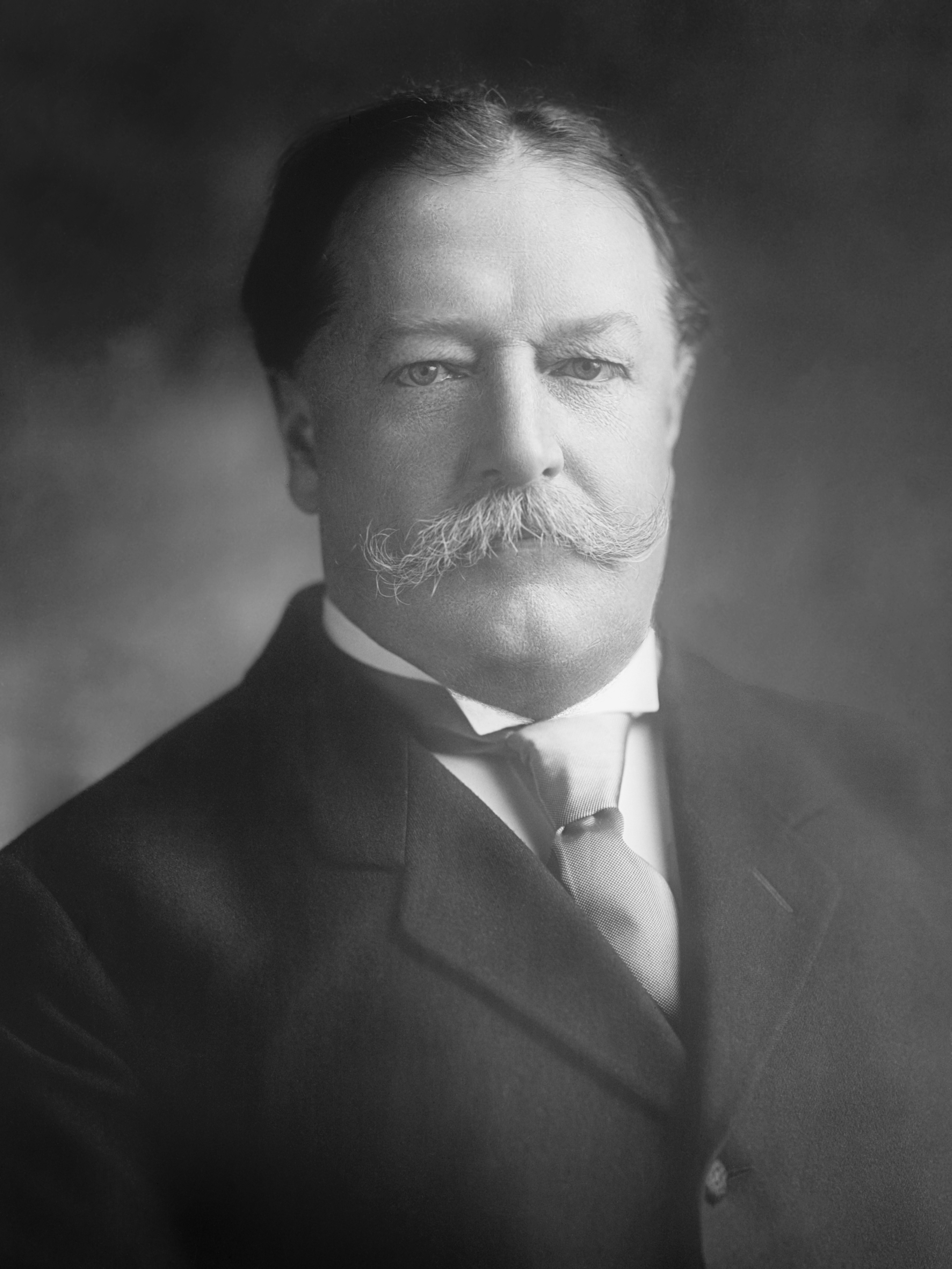 William Howard Taft, 27th President of the United States.